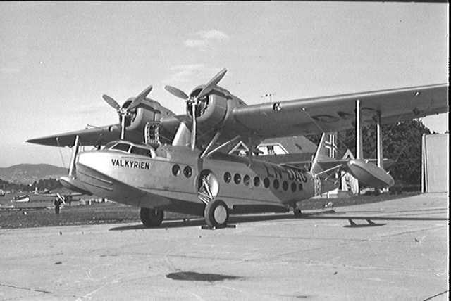 The Sikorsky S-43 LN-DAG Valkyrien belonging to the Norwegian airline company Det Norske Luftfartselskap (DNL) at the seaplane base Gressholmen Airport near Oslo in Norway.